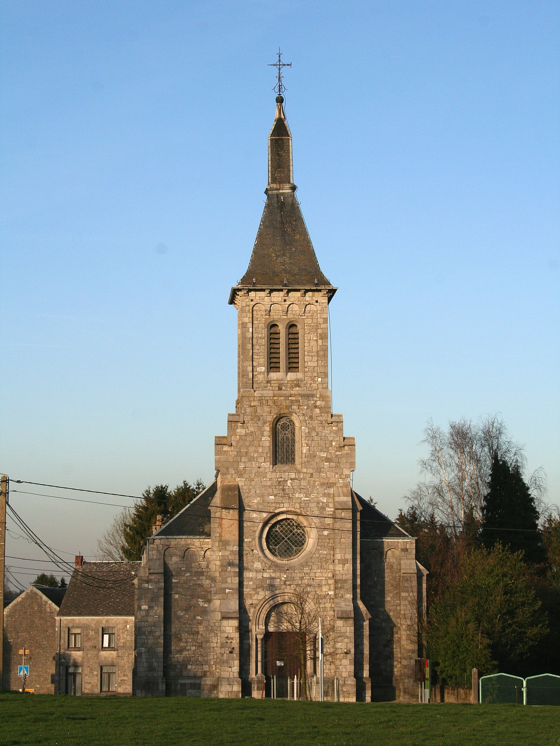 Méan (Belgium), the St. Stephen church (1874-1876).